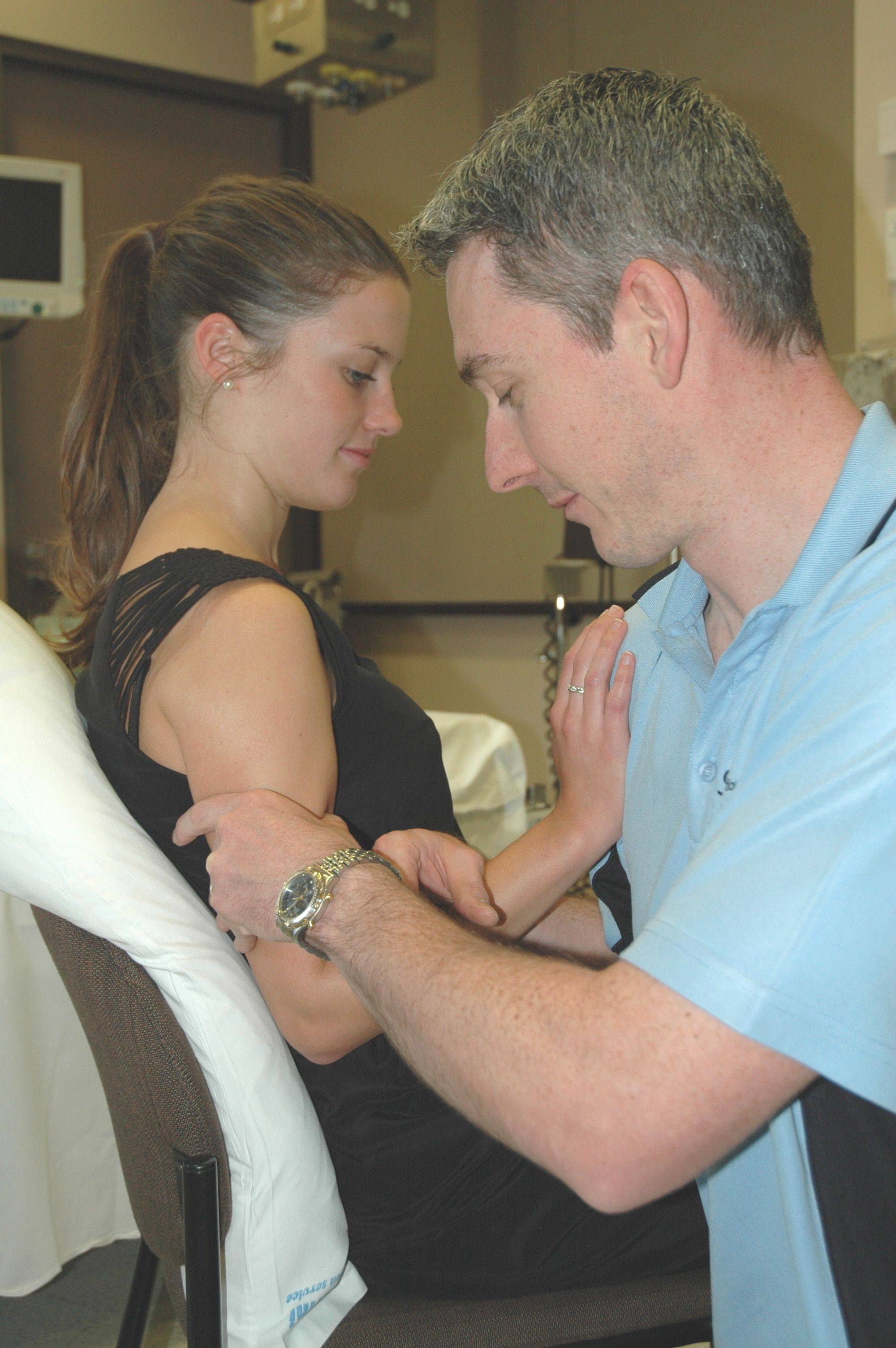 Cunningham technique demonstration